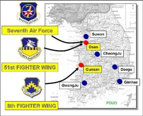 Bases of the USAF 7th Air Force Source: United States Air Force.